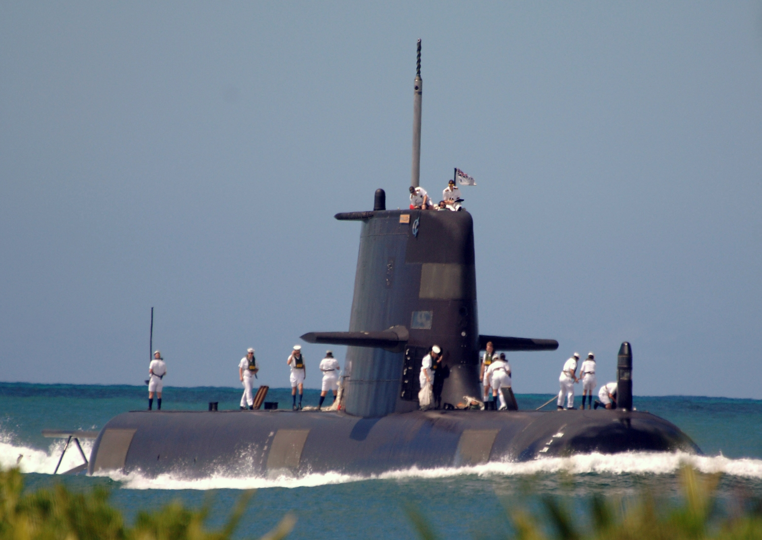 The Australian navy submarine HMAS Waller (SSG 75) pulls into Pearl harbor for a scheduled port call before starting Rim of the Pacific (RIMPAC) 2008.